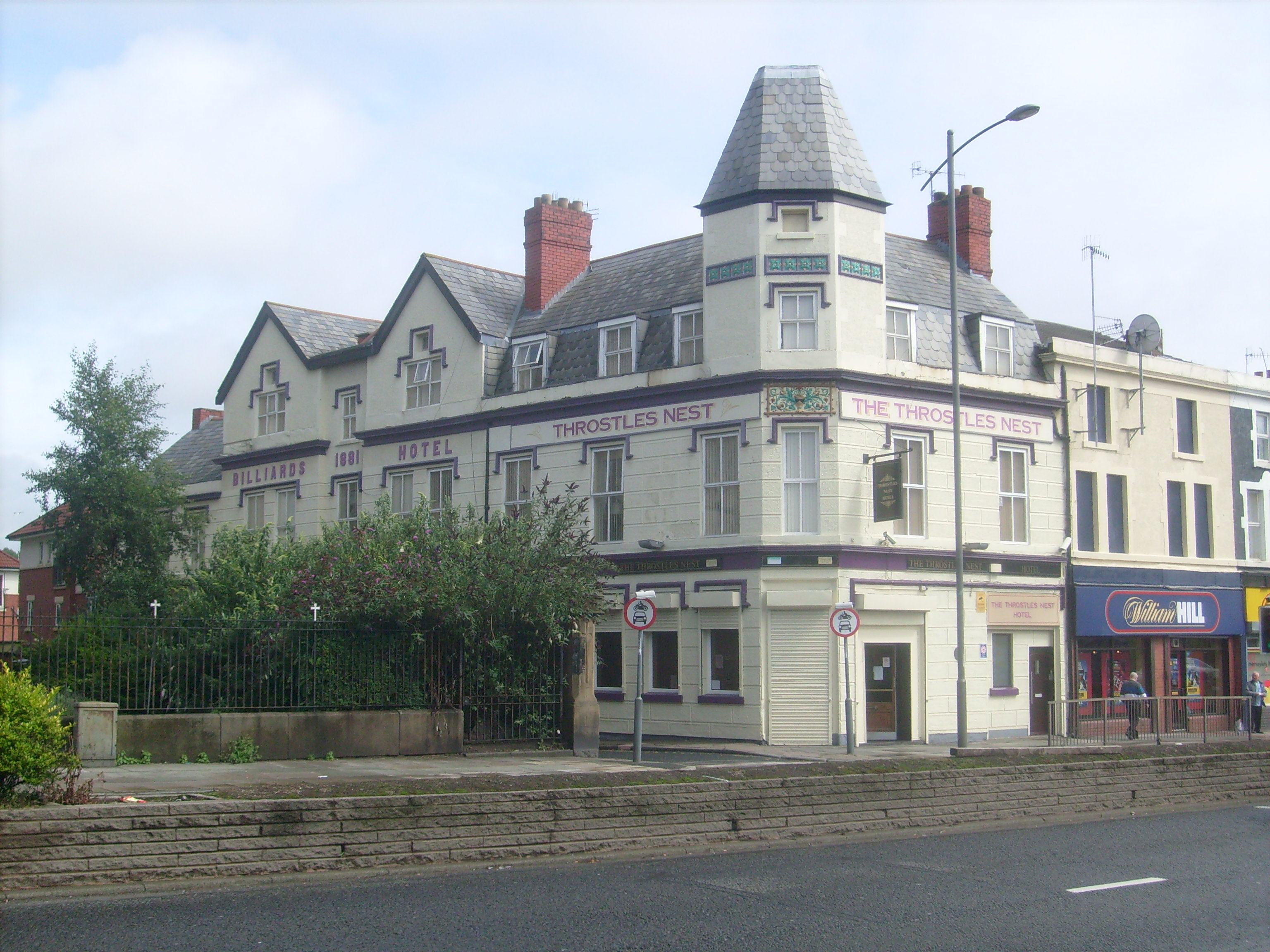 Throstles Nest Hotel, Vauxhall, in Liverpool